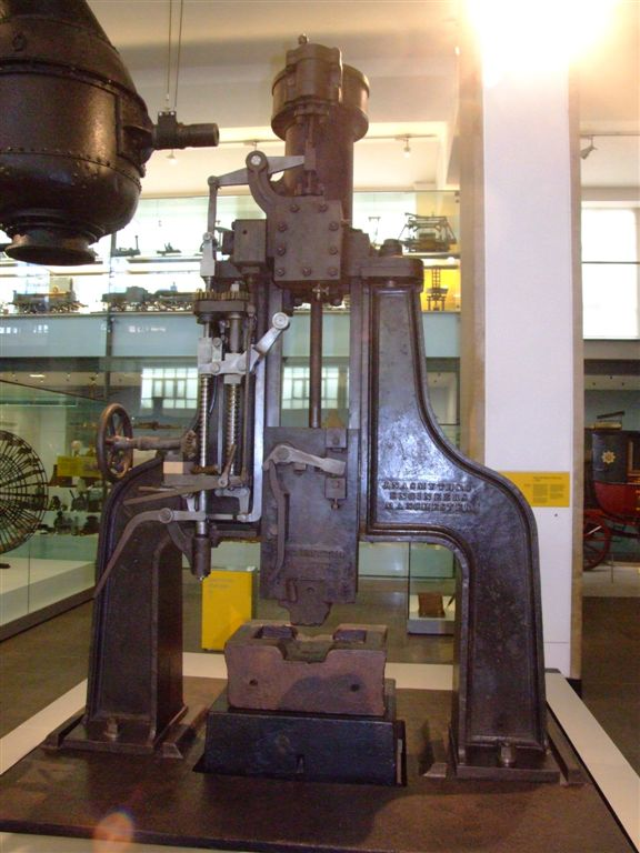 Steam hammer Nasmythe built hammer dating from the 1900s